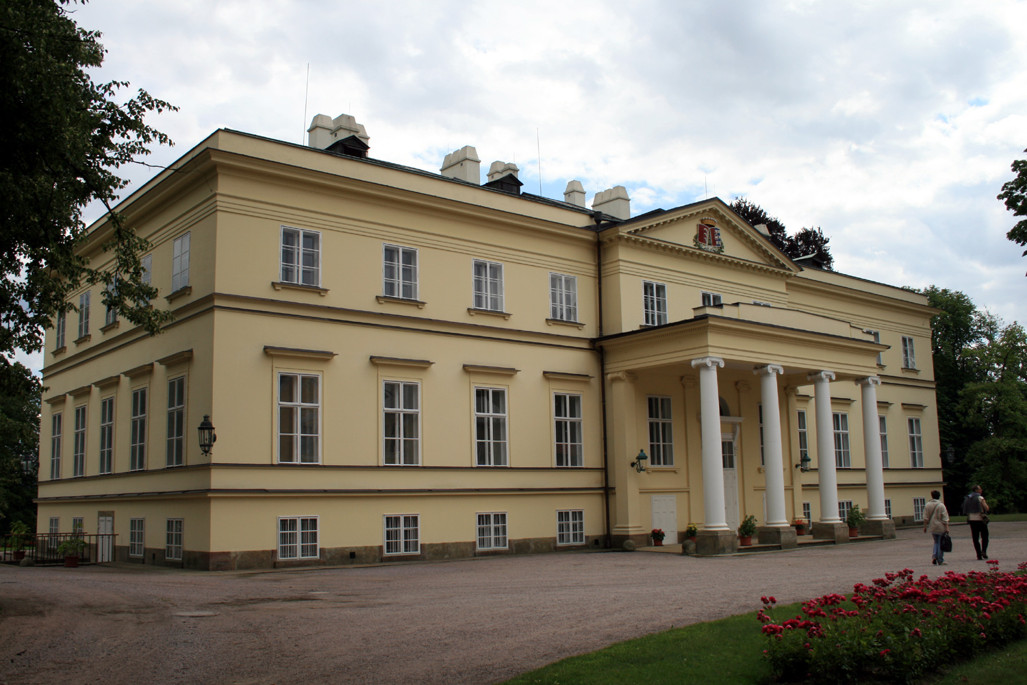 Kostelec nad Orlicí castle, east Bohemia, Czech Republic